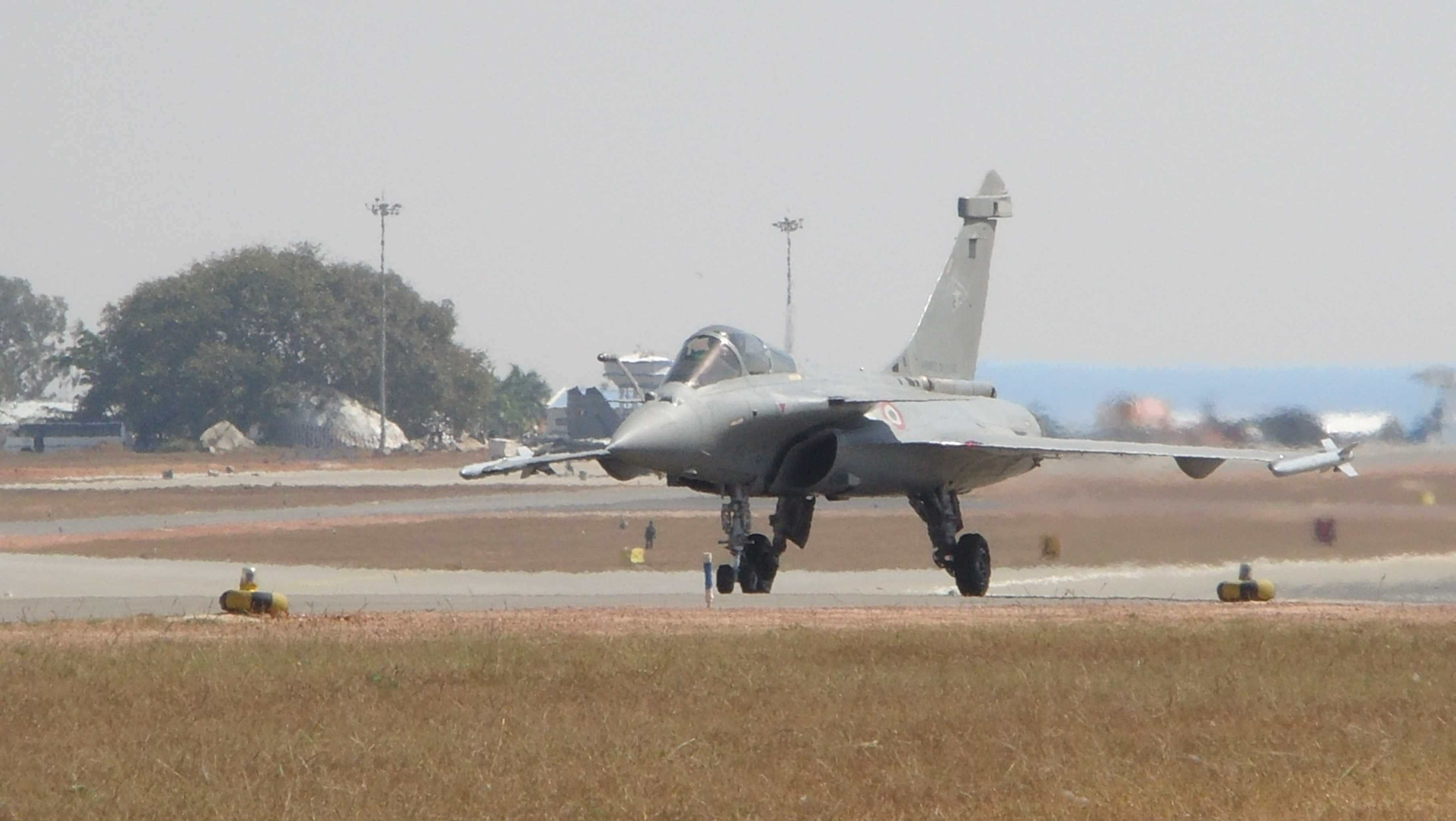 Dassault Rafale Taxies to the runway, for take off at Aero India 2011, Yelahanka Air Force base Bangalore.